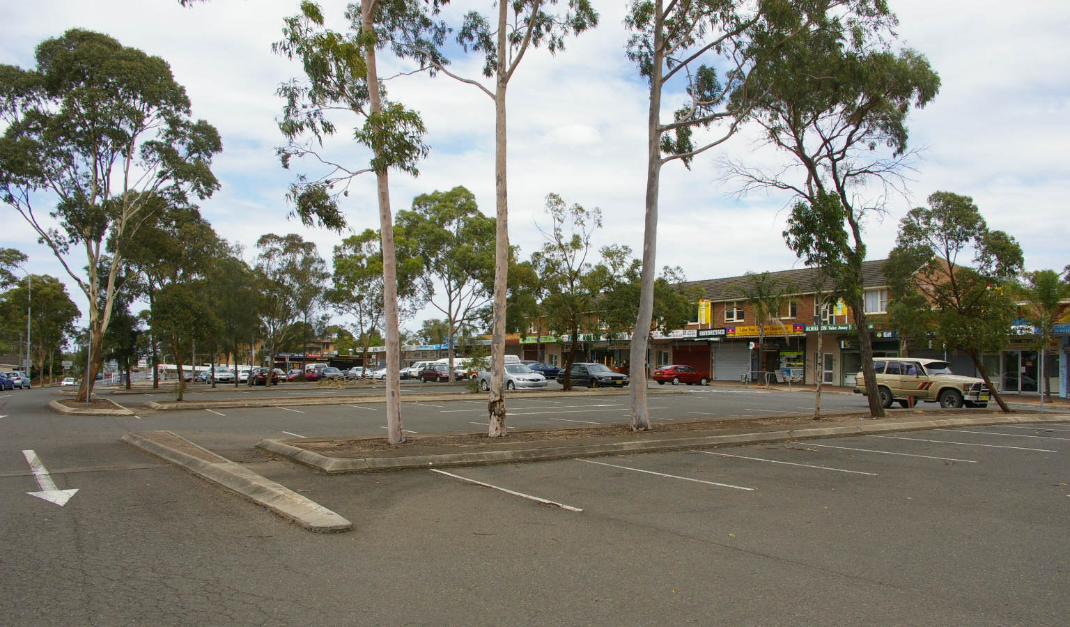 Lalor Park Shopping Centre